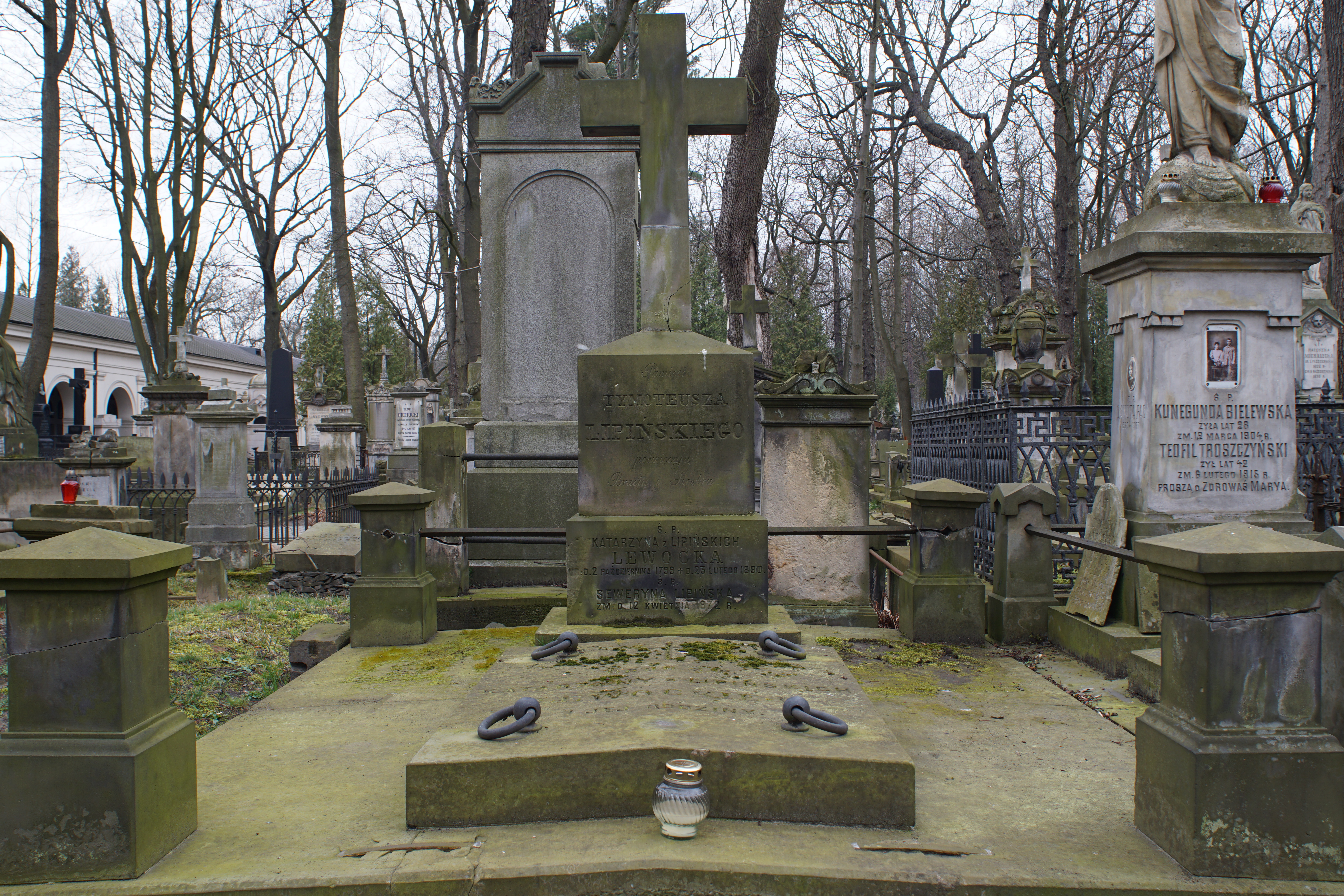 The grave of Katarzyna Lewocka at the Powązki Cemetery (section 6, row 3, grave 19, 20)